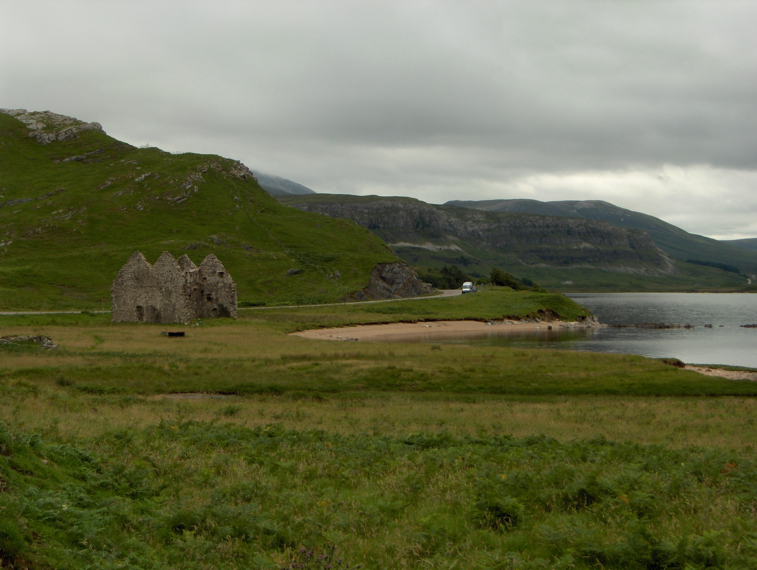 Calda House, on Loch Assynt (Scotland)